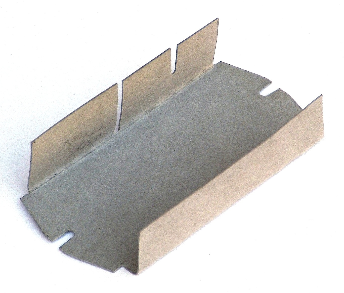 Formed fishpaper (electrical grade vulcanized fibre) insulating shield for part of a Teletype Model 33 power supply. While fishpaper resembles cardboard or paperboard, it is chemically modified by vulcanization to produce a markedly stronger but somewhat brittle material.